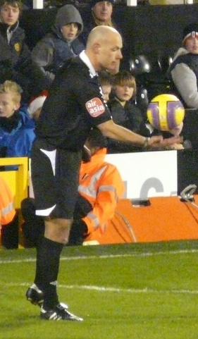 English football (soccer) referee Howard Webb